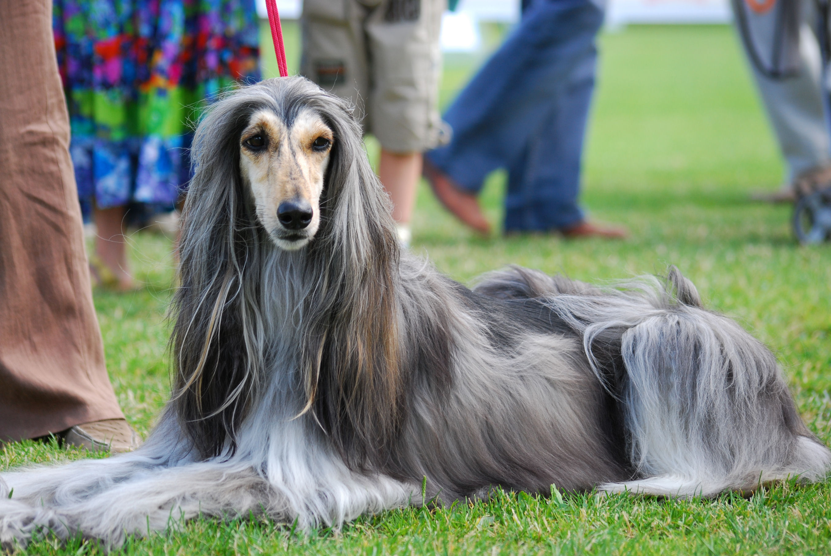 Afghan Hound XXXIII Dogs Show in Ustroń, Poland